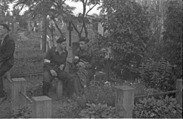 WarsawUprising: Insurgents from "Agaton" Platoon on Pięść Battalion smoke cigarettes at a grave at Evangelic Cemetary